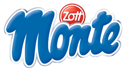 Monte Logo